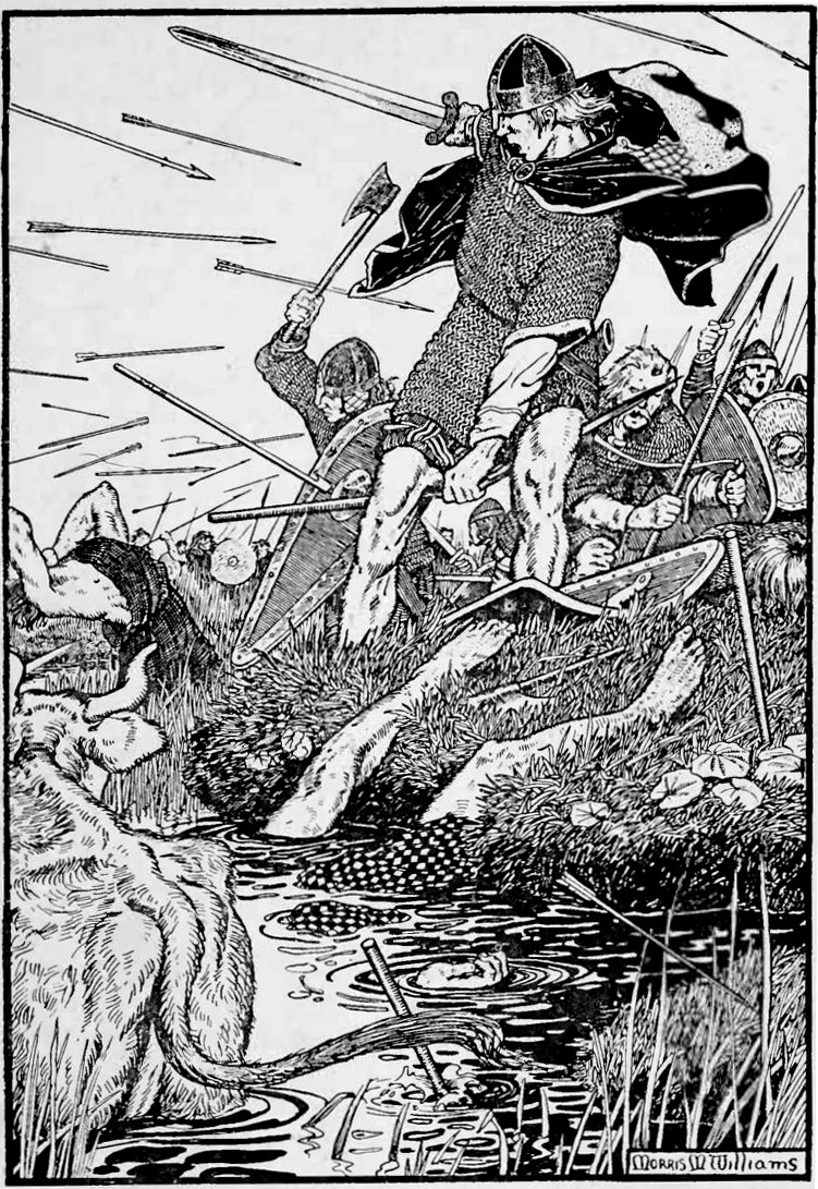 Illustration of the last battle of Magnús Óláfsson, King of Norway (died 1103). The image appears on page 240 of: Hull, E (1913). The Northmen in Britain. New York: Thomas Y. Crowell Company. The original caption reads "King Magnus in the Marsh at Downpatrick".